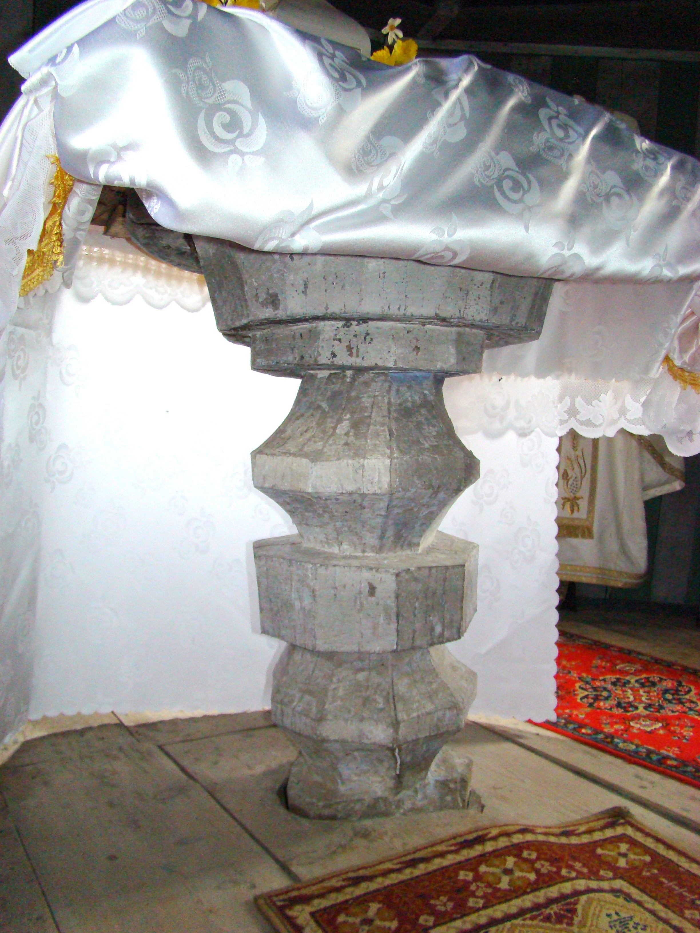 Wooden church in Mierţa, Sălaj county, Romania